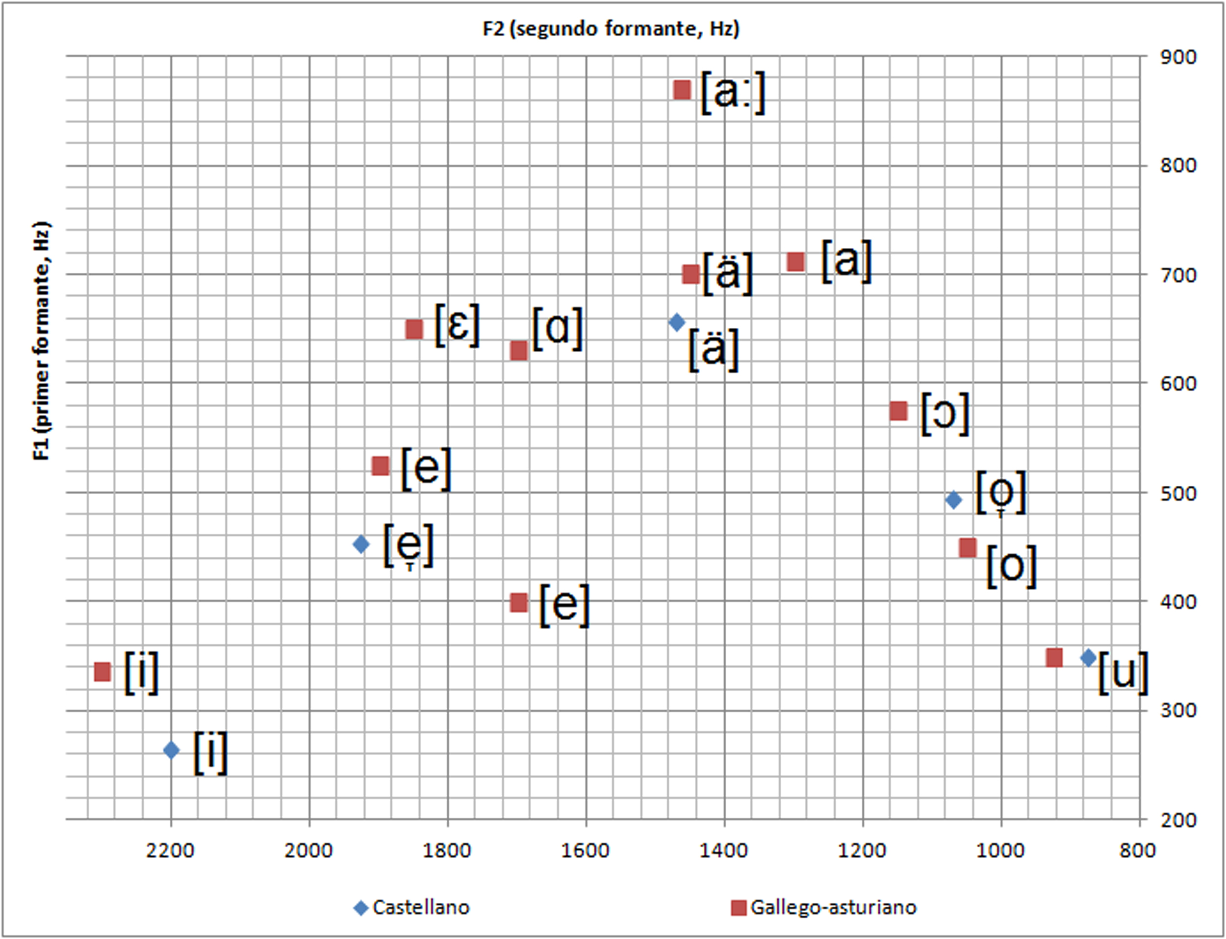 Formantes Gallego-asturiano